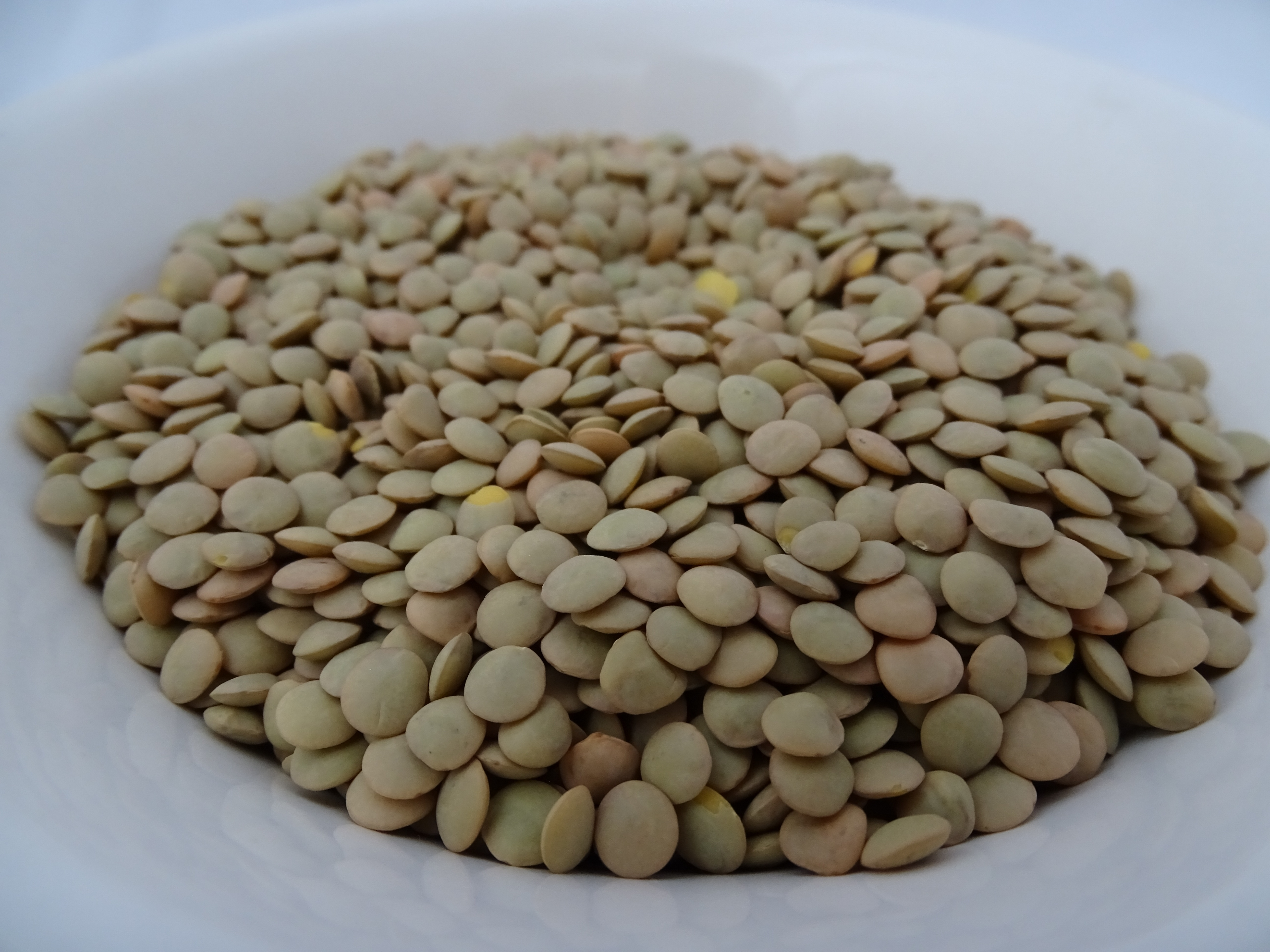 Lentil seeds